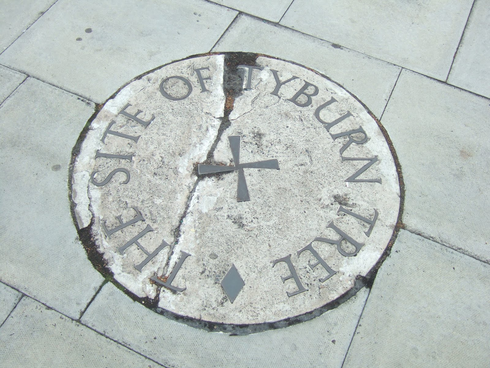 London, traffic island at the corner of Edgware and Bayswater Roads near Marble Arch, Tyburn Tree memorial plaque